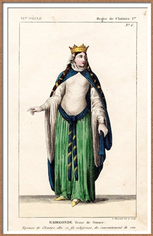 Portrait of Radegund (521 — 587)